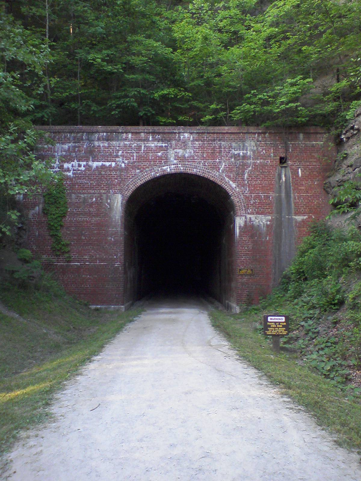 Abandoned rail tunnel #13, now part of a walking trail in North Bend State Park.